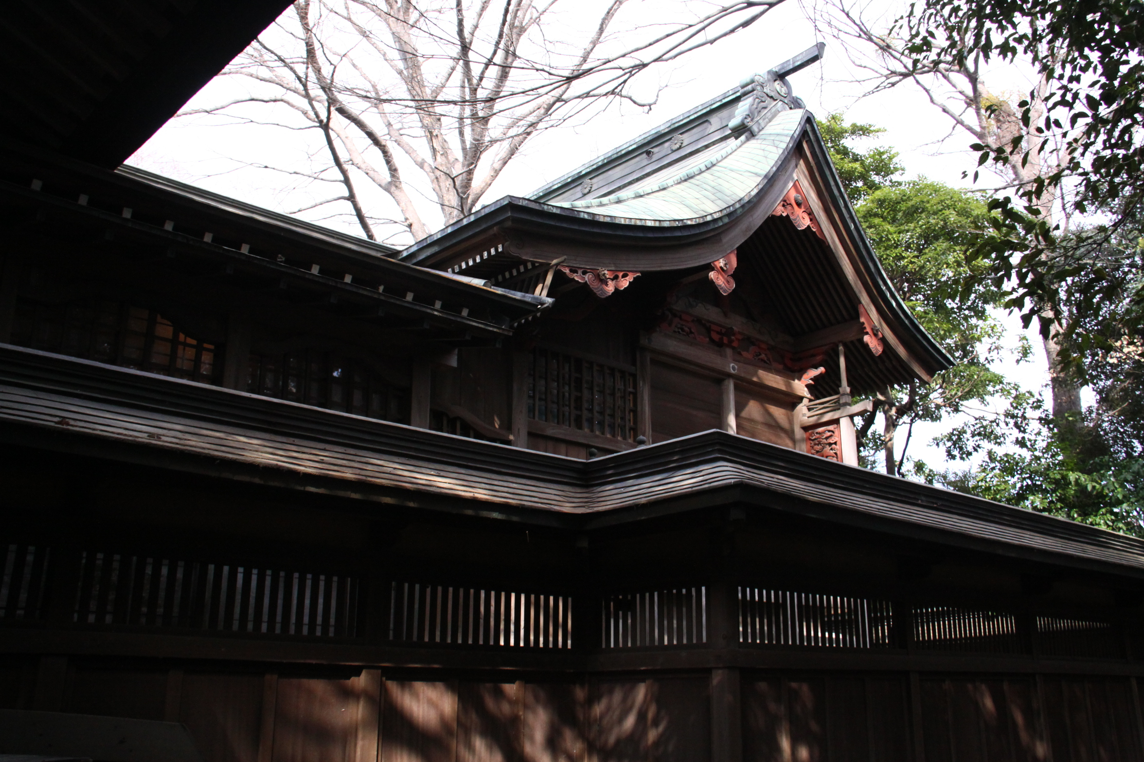 Sakitori jinja Honden